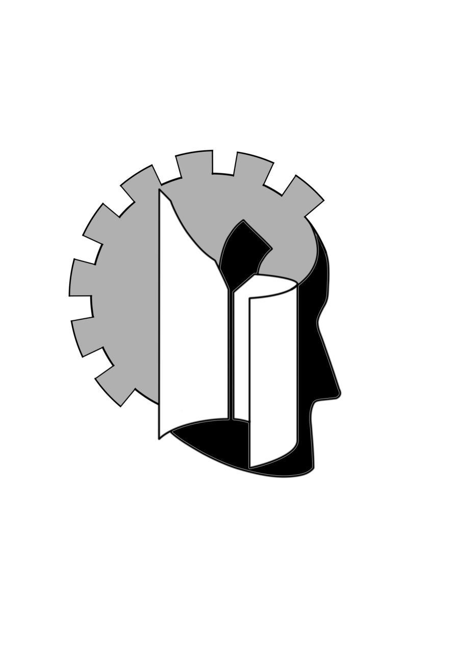 it's a HE logo